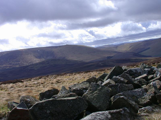 Taken from the side of Harelaw looking towards Coldburn hill and the Cheviot behind that.